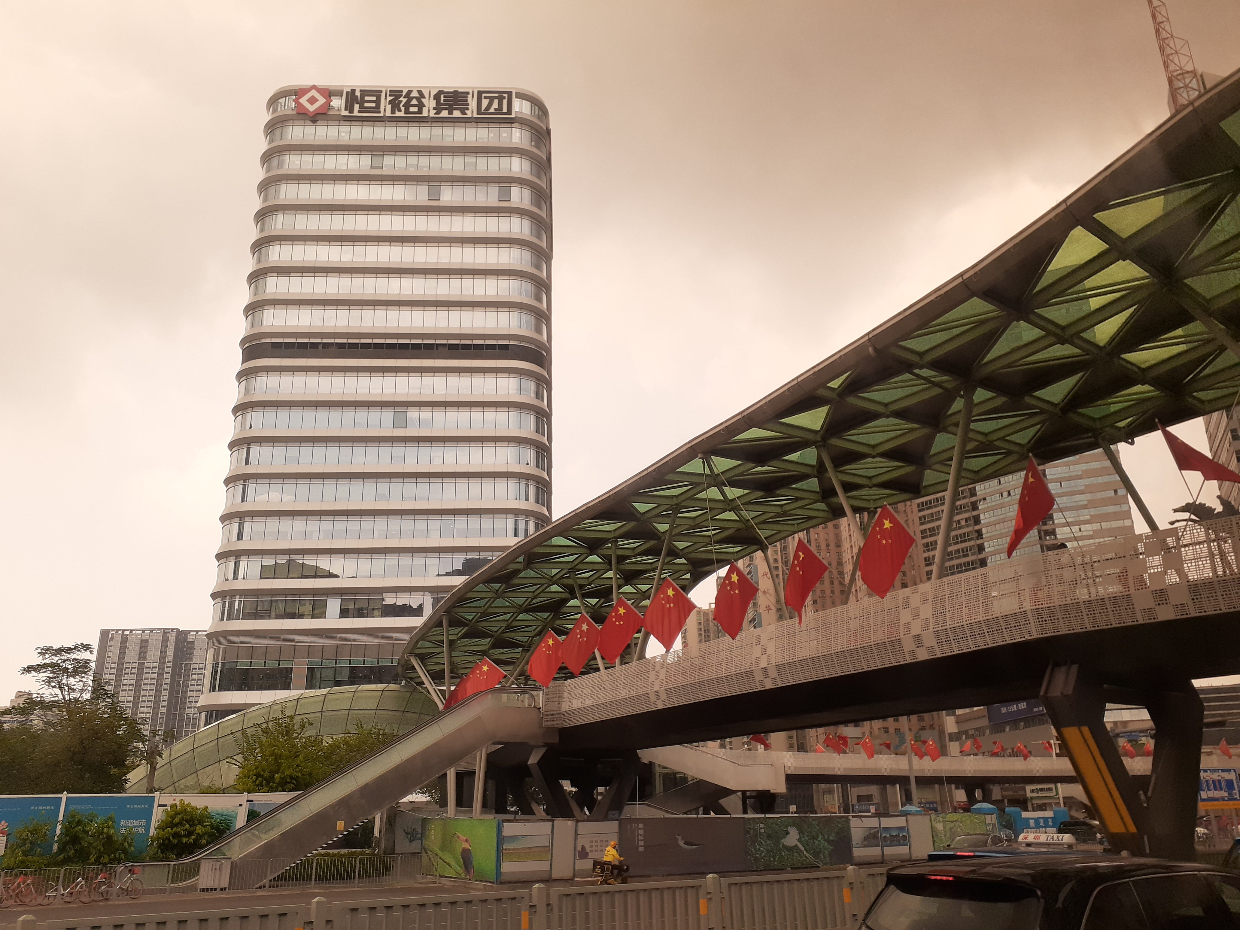 SZ 深圳 Shenzhen bus 106 view from Nanshan to Futian District October 2019 恆裕集團 address: 深圳市南山區登良路恆裕中心